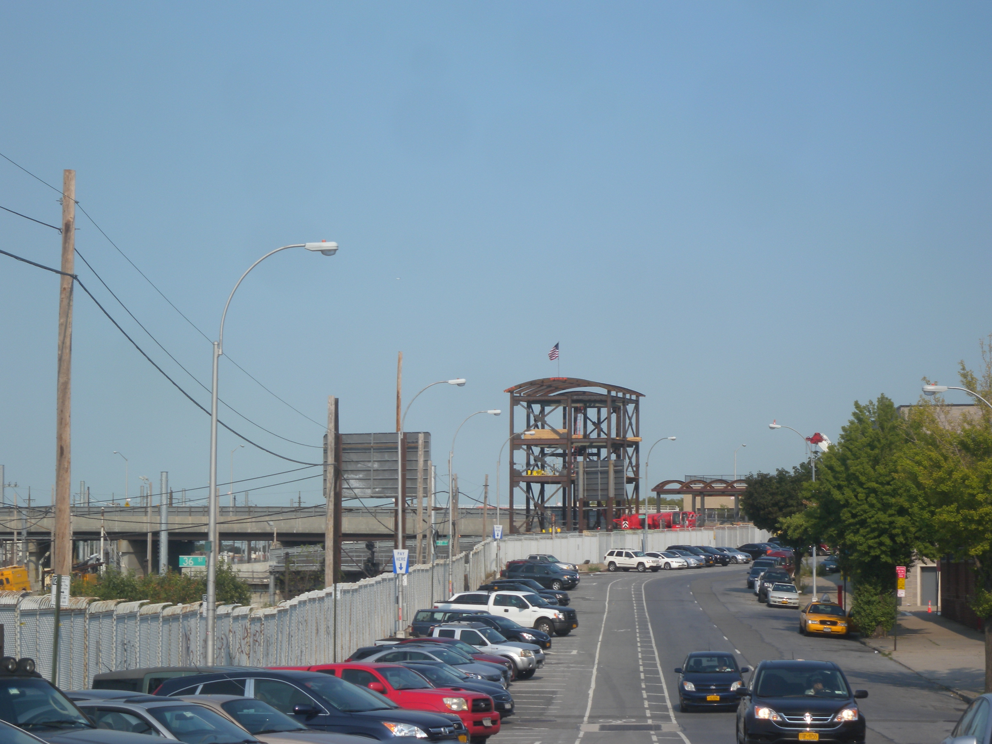 Looking east from Skillman Avenue and Honeywell Street at skeleton of new structure at 39th Street. It is being built for the MTA/Long Island Railroad East Side Access project, as an emergency exit to 39th Street bridge (left) and substation on Skillman (right). See ESA contractor outreach